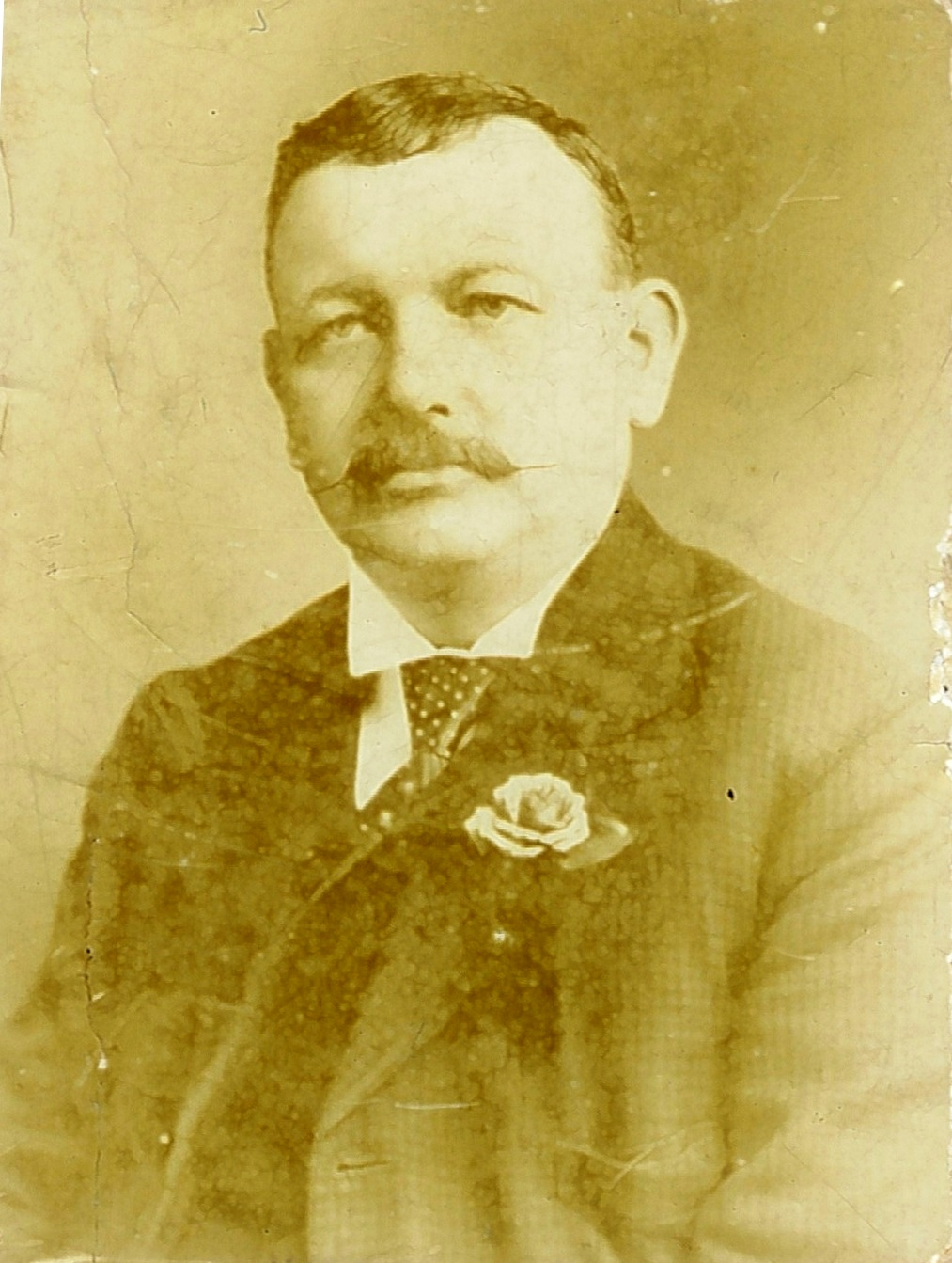 Portrait of Charles Frederick White (Senior), later Liberal MP for English Parliamentary constituency of West Derbyshire